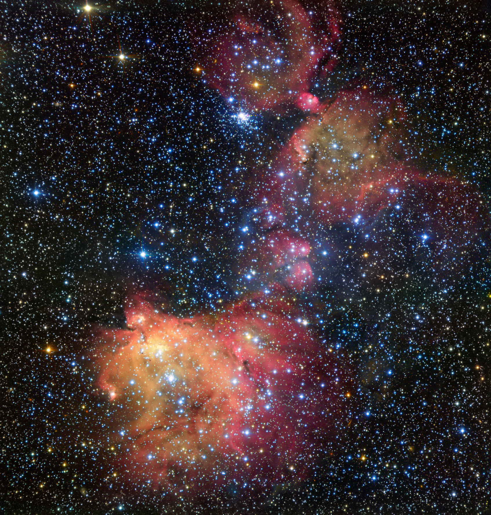 In this image from ESO’s Very Large Telescope (VLT), light from blazing blue stars energises the gas left over from the stars’ recent formation. The result is a strikingly colourful emission nebula, called LHA 120-N55, in which the stars are adorned with a mantle of glowing gas. Astronomers study these beautiful displays to learn about the conditions in places where new stars develop.